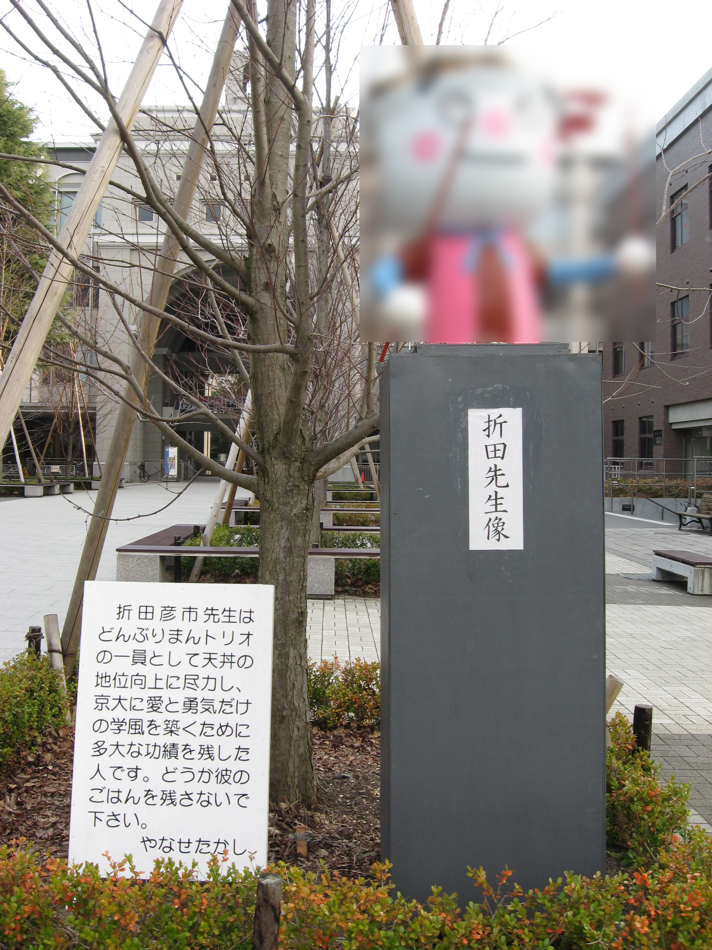 The statue of Hikoichi Orita (jawp), in Kyoto University. It is Tendonman (jawp) version.